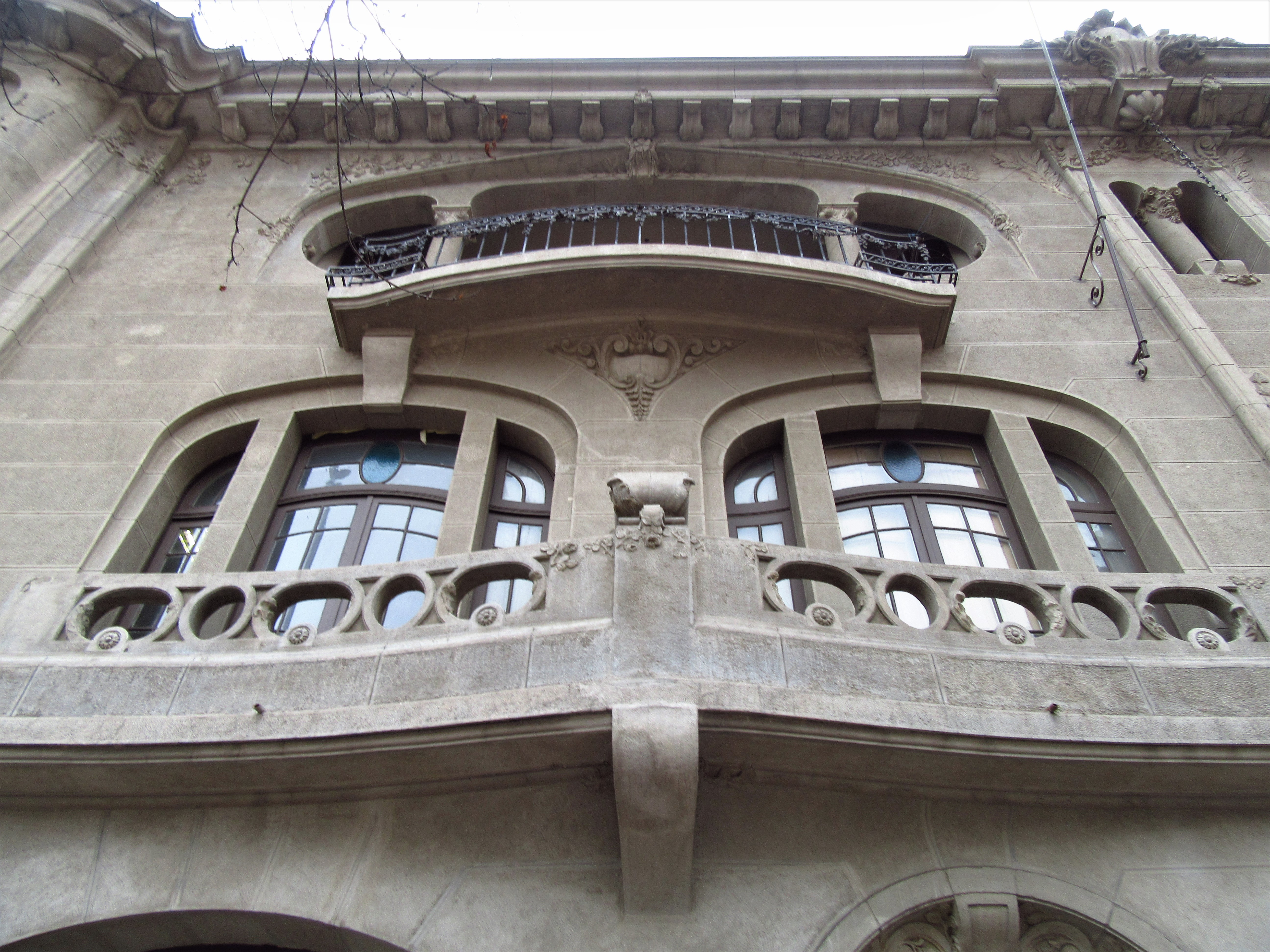 2017 in Santiago de Chile